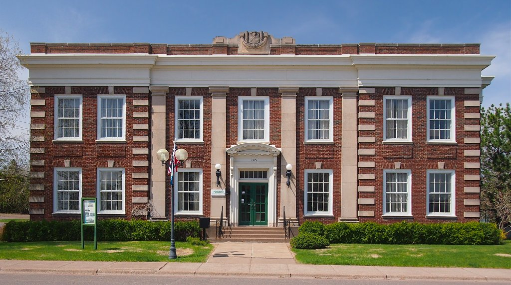 Cloquet City Hall, 105 Arch Street, Cloquet, Minnesota, USA. Viewed from the east-northeast.